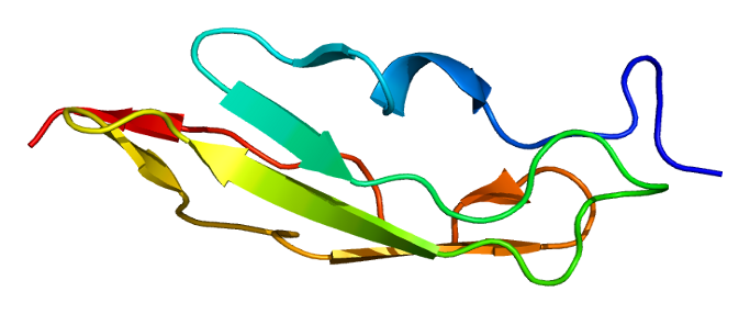 Structure of the GABBR1 protein. Based on PyMOL rendering of PDB 1srz.